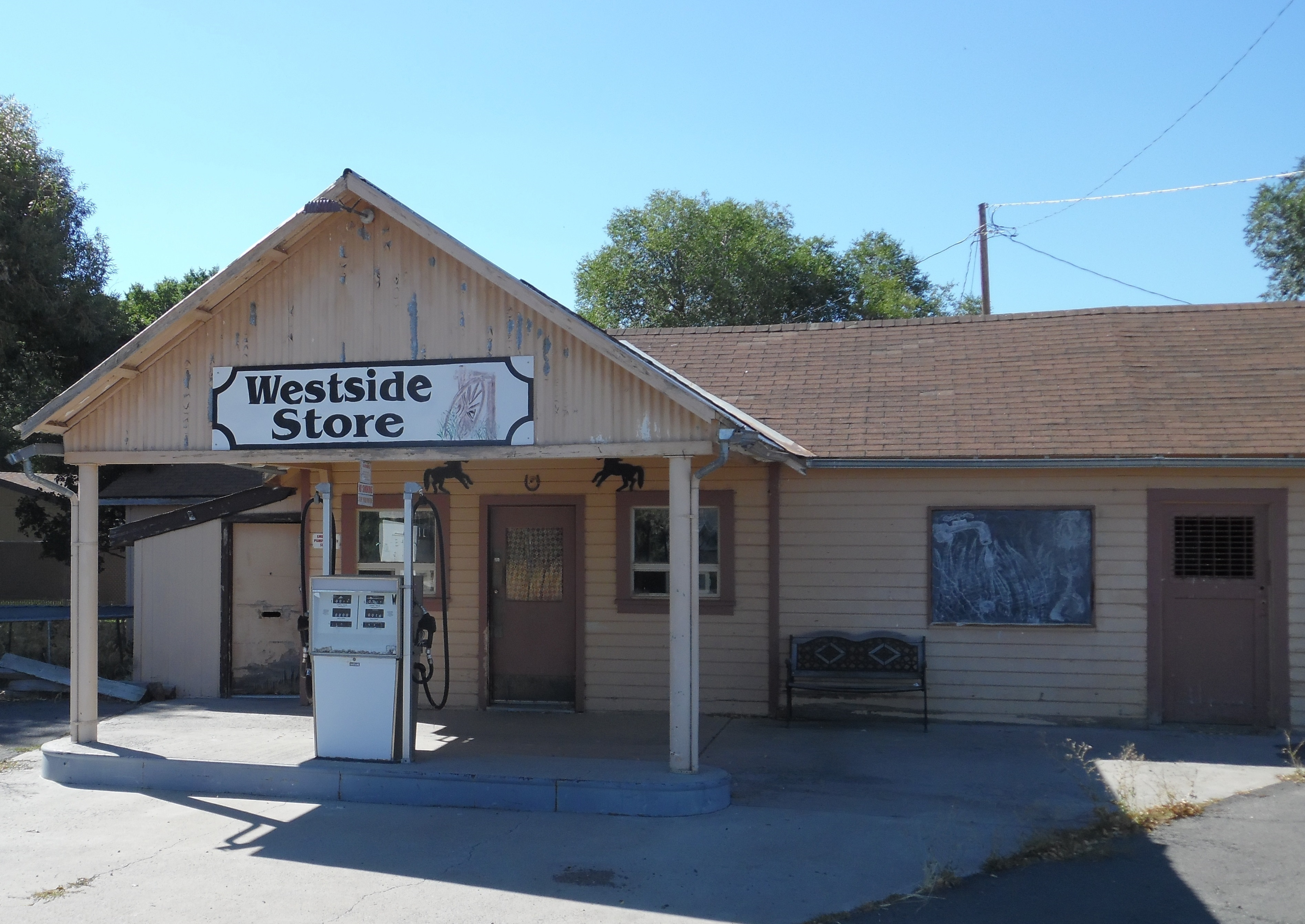 The Westside store in the unincorporated community of West Side 17 miles southwest of Lakeview in Lake County, Oregon.